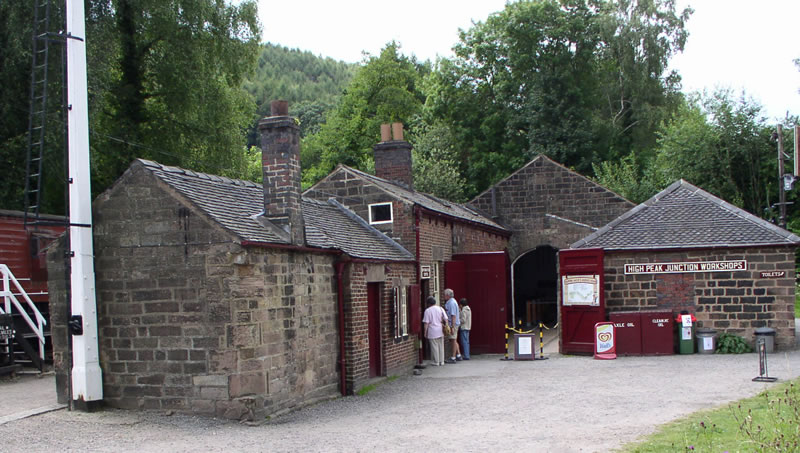 Workshops at the terminus of the Cromford and High Peak Railway at Cromford Wharf